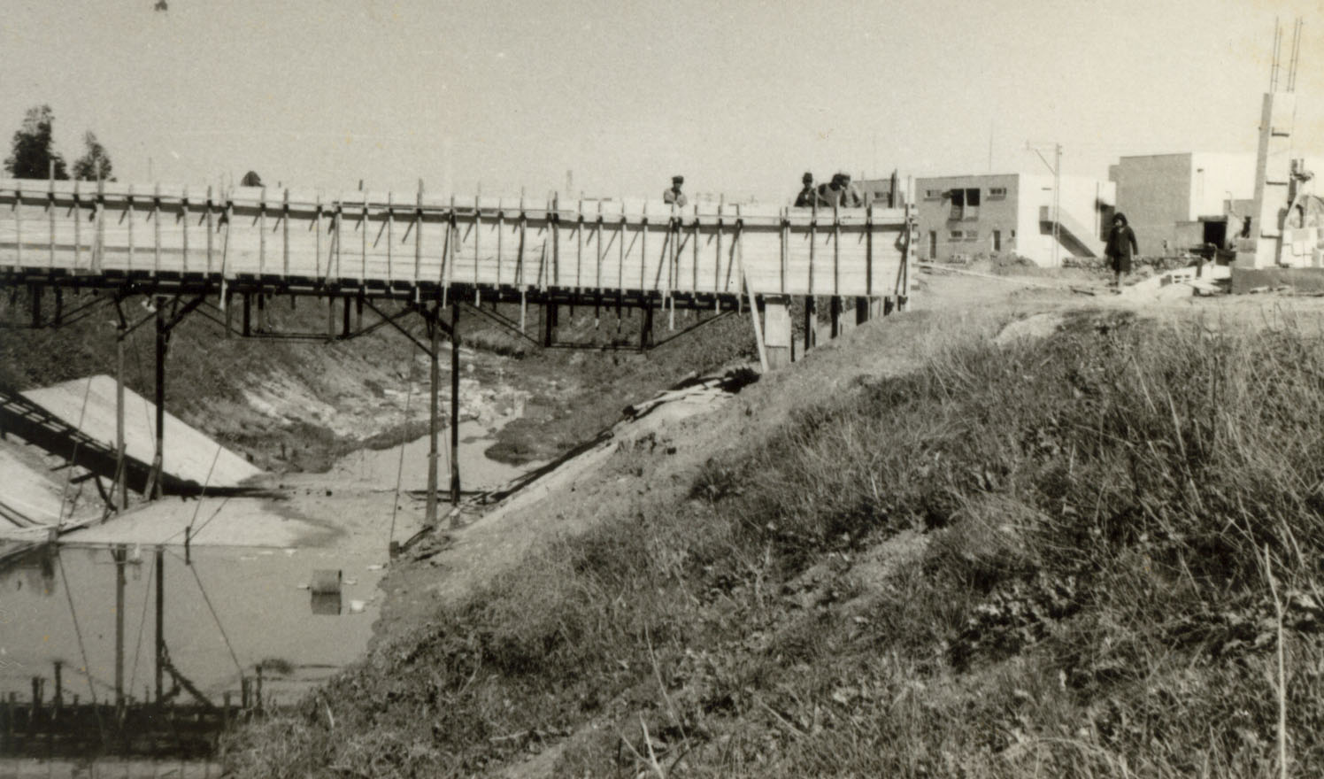 kiryat gat, Architecture of Israel